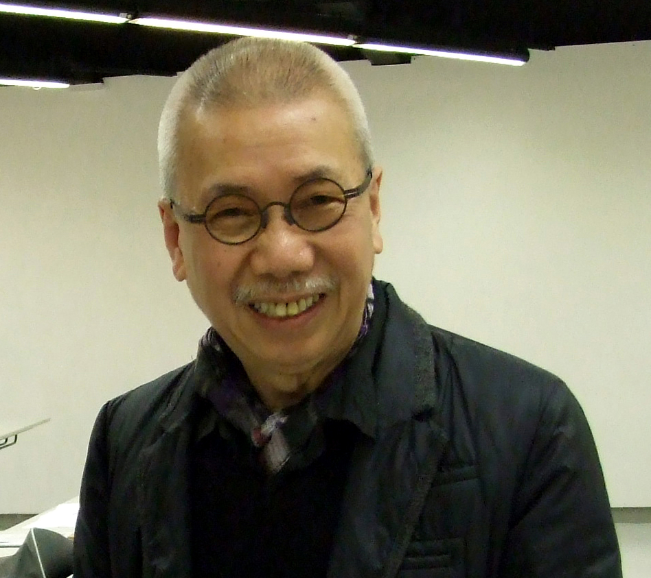 Dr. Kan Tai-keung SBS